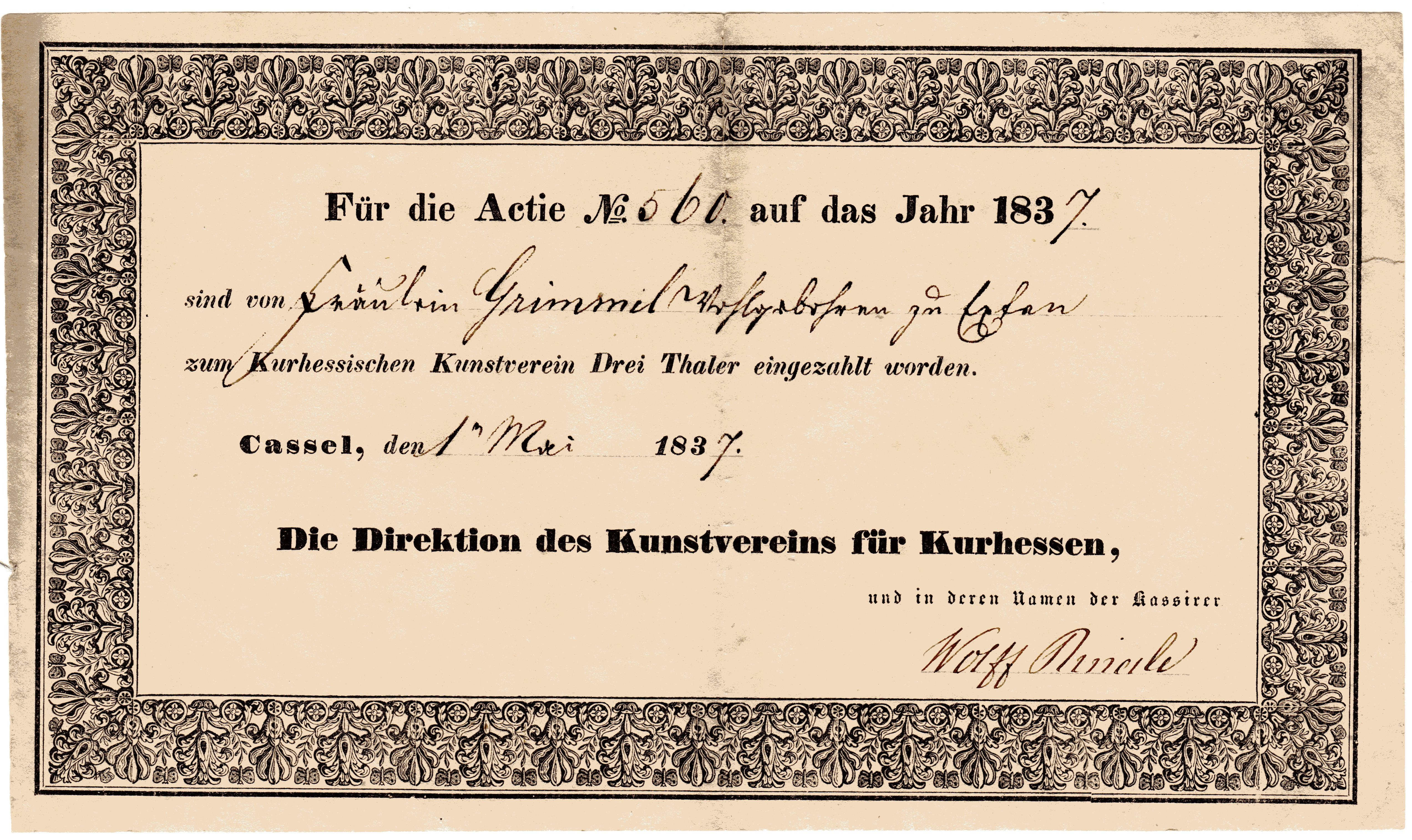 Share of the Kunstverein für Kurhessen, issued 1. May 1837